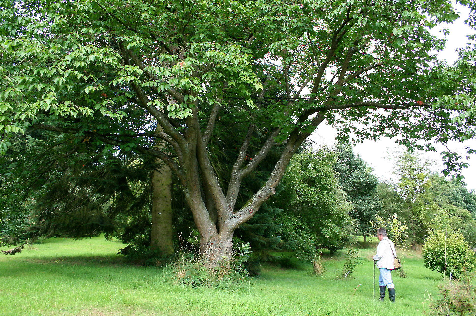 Prunus sargentii - Sargent's cherry or Ezo mountain cherry circumference at 1m50: 276 cm - (2008) planting date : 1956 Precise location: Arboretum Robert Lenoir - Rendeux (Belgium). Walon: Cèrijî di Sargent Toûr di l'aube a 1m50 di Ôteû: 276 cm - (2008) Anéye do plantis' : 1956 Place do plantis' : Arboretum Robert Lenoir - Rindeu (Bèljike).